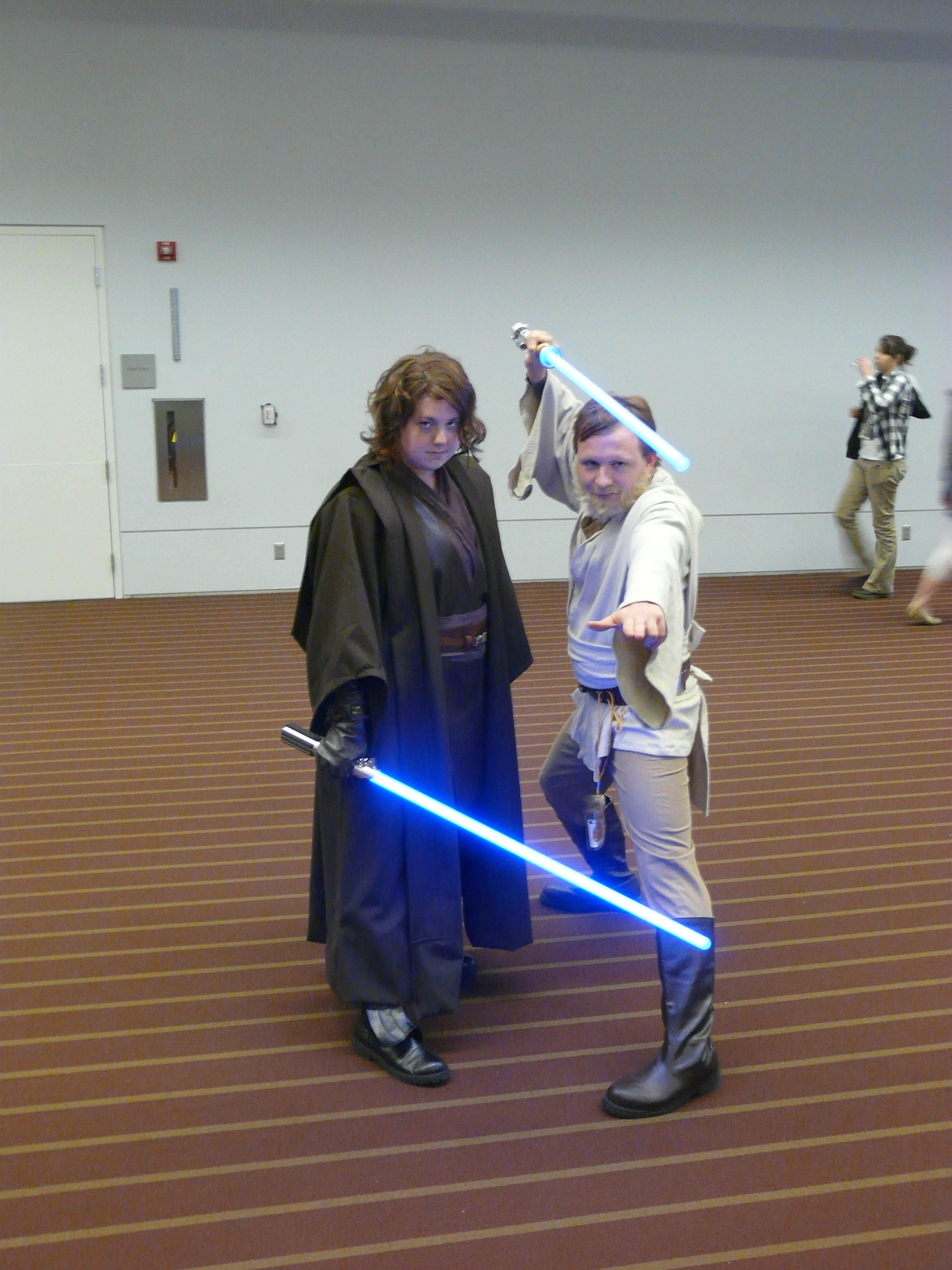 Tekkoshocon at David L. Lawrence Convention Center (2010)